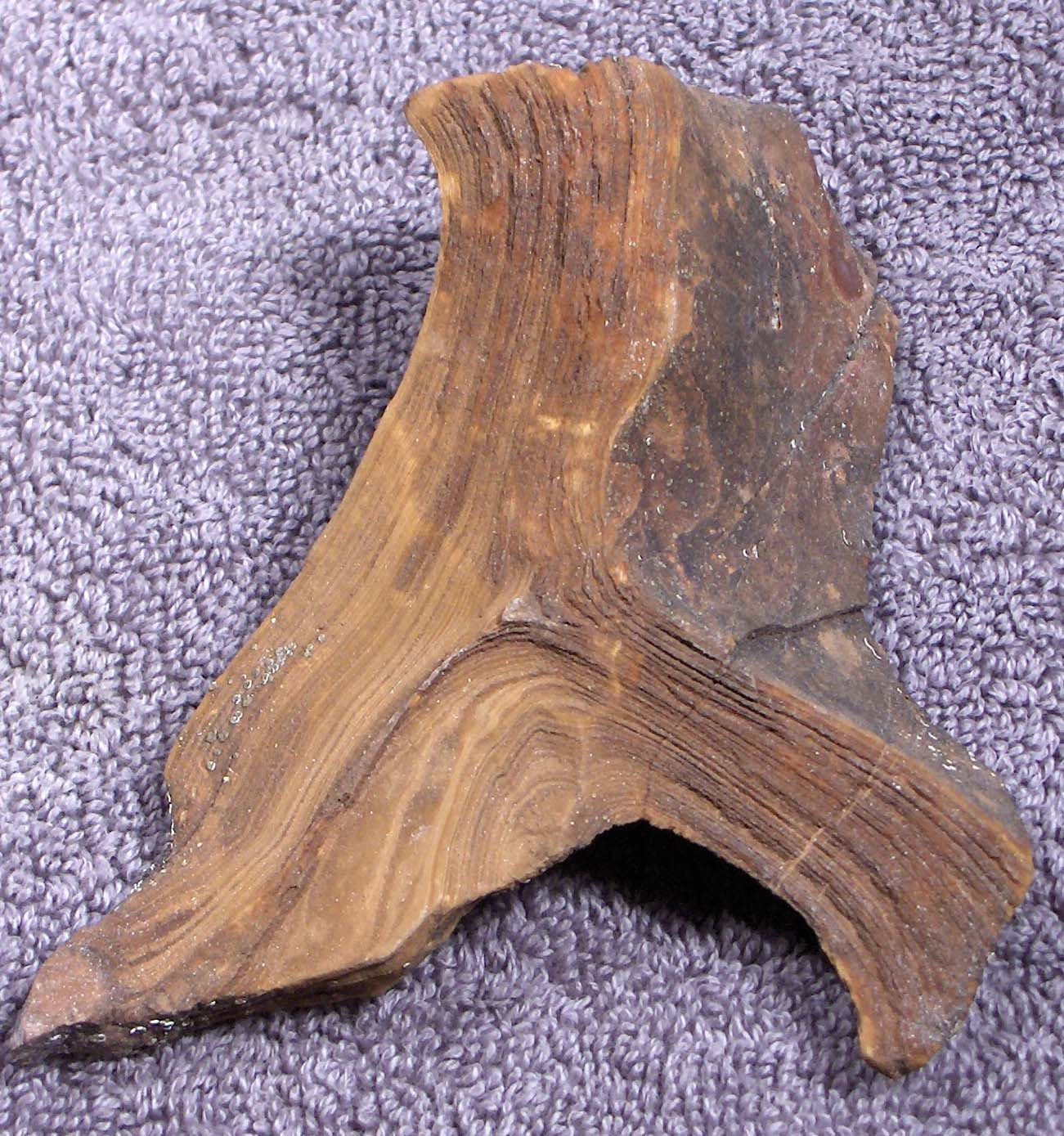 Example of Proterozoic algal matting. Layers, beds and reefs made of sun-loving slime lived for billions of years in shallow waters. When macro lifeforms evolved 600 million (or so) years ago, stromatolites became snail food. Today, stromatolites survive in hypersaline water such as the Hamelin Pool in Shark Bay, Australia. Fist-sized sample collected from the Pethei Formation, Blanchet Island, East Arm, Great Slave Lake, Northwest Territories, Canada.